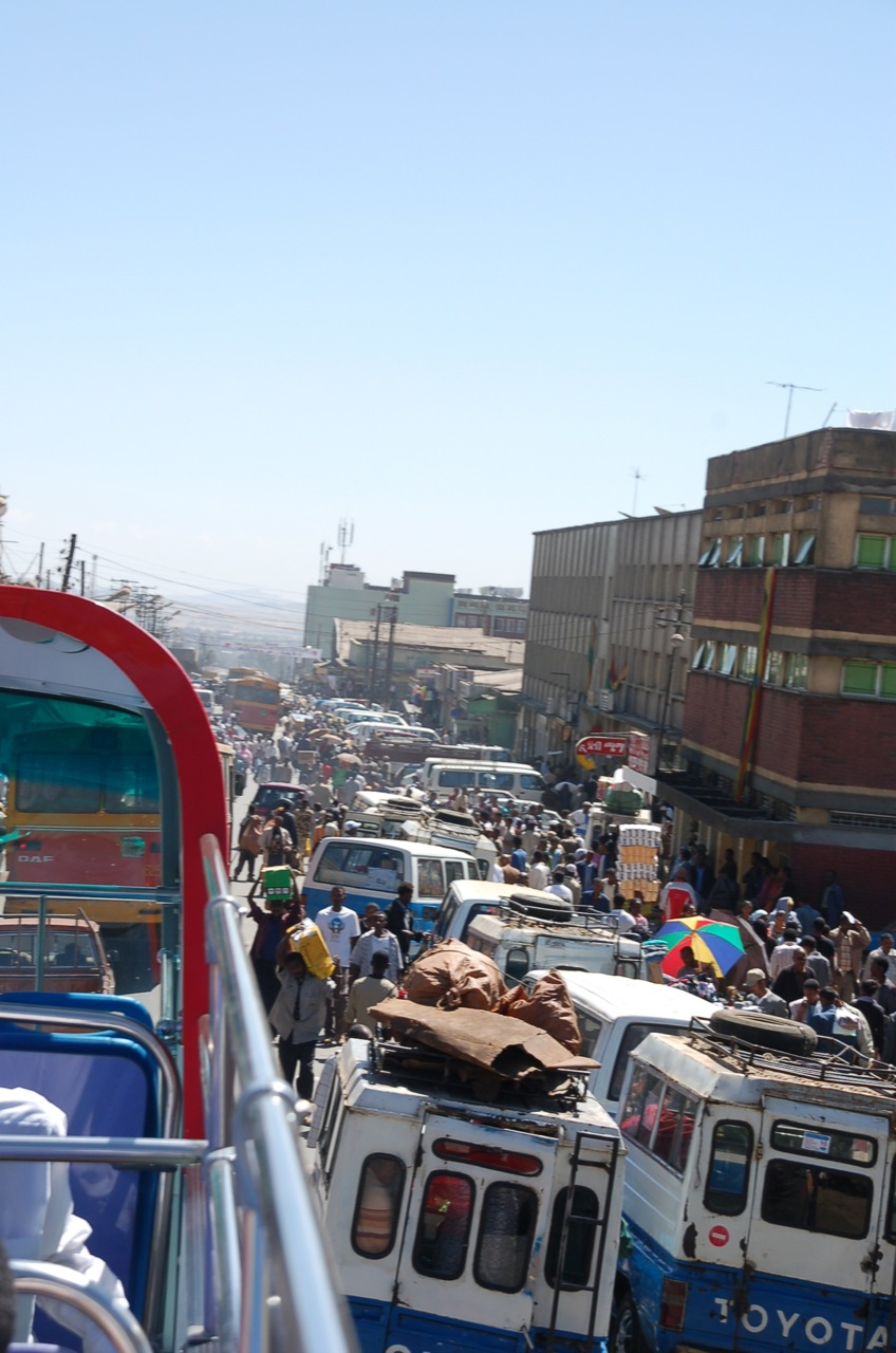 Traffic in Addis Abeba